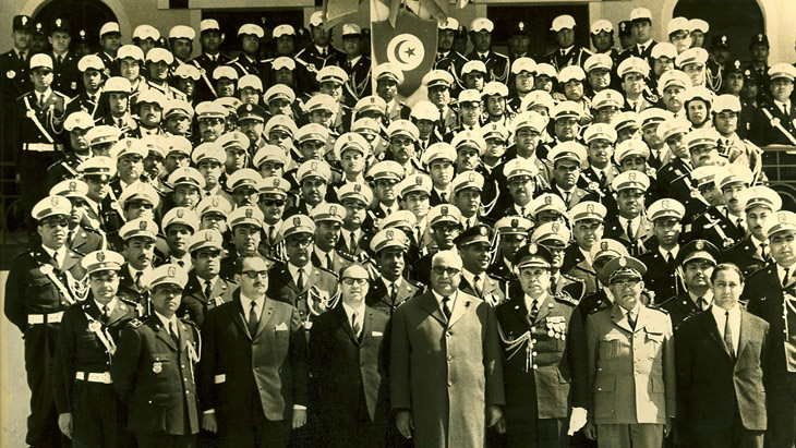 Beji Caïd Essebsi minister of defense